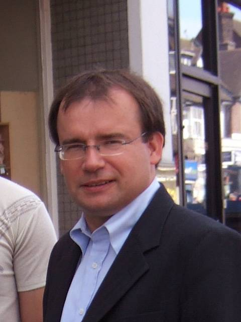 Gareth Thomas, MP for Harrow West, in Bridge Street, Pinner.